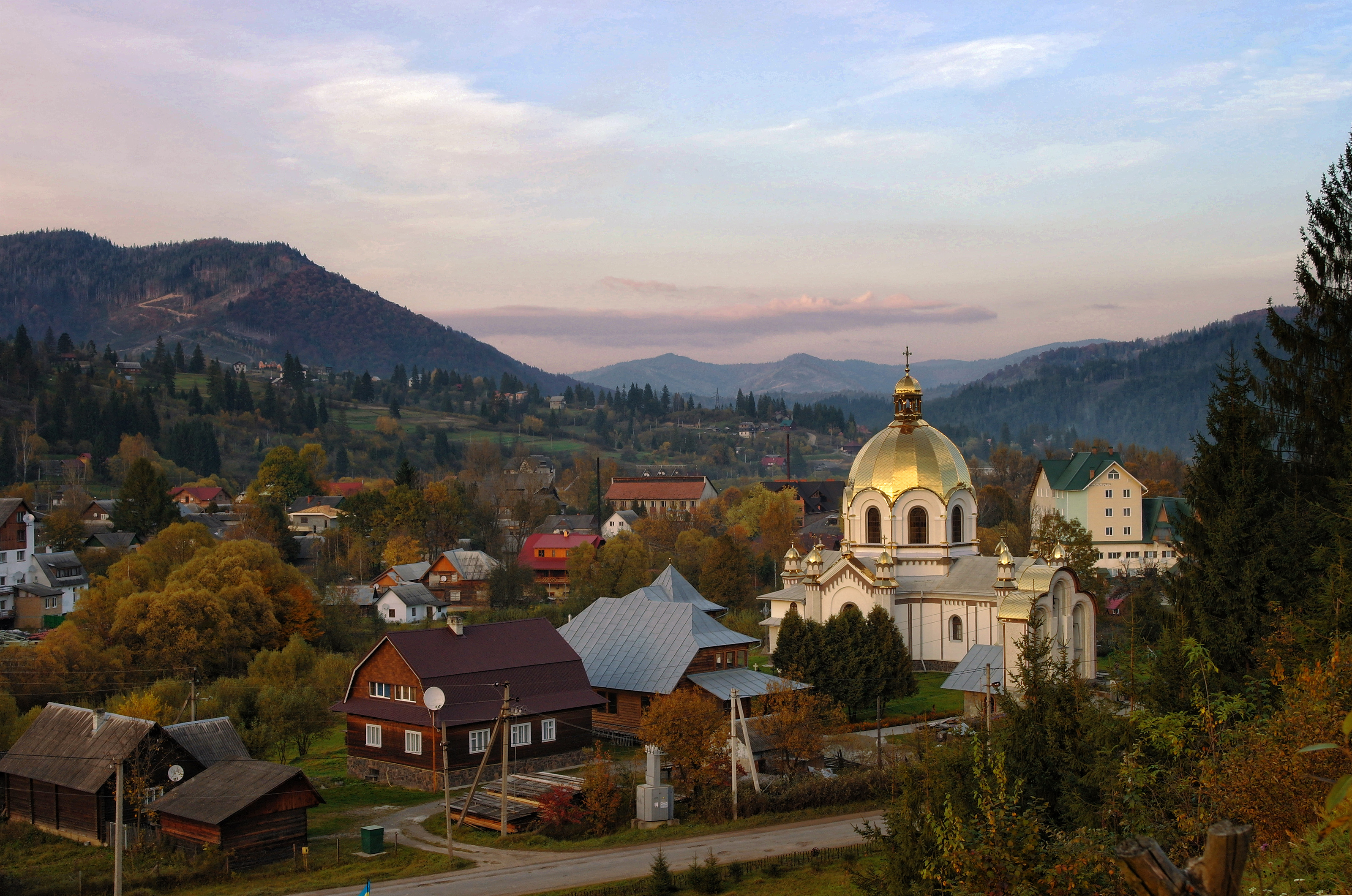 Church of the Dormition of the Theotokos in Slavske, Ukraine